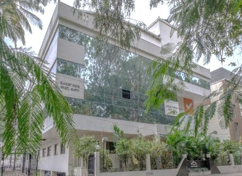 Cleartrip